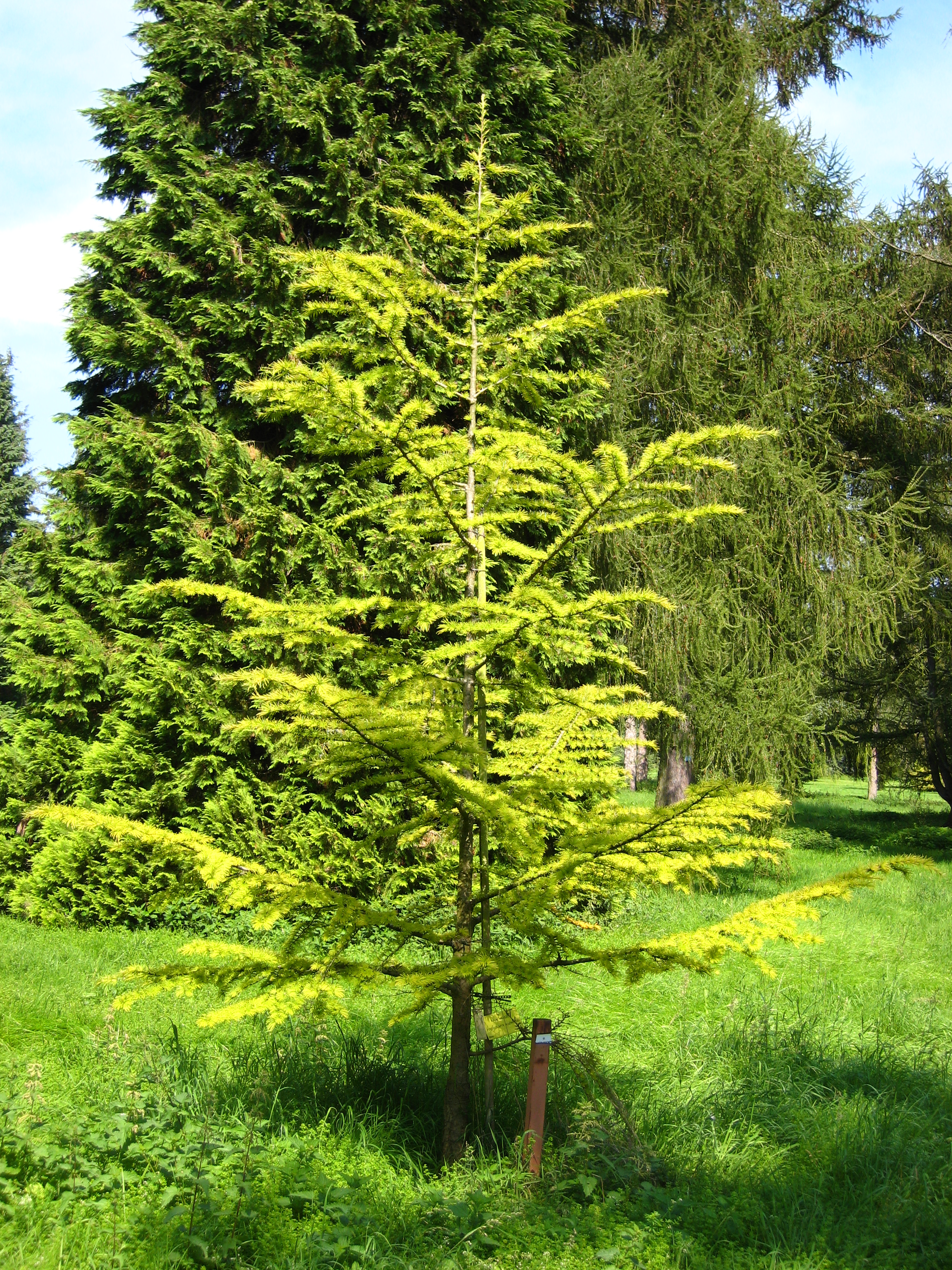 Pseudolarix amabilis (syn. P. kaempferi) in the Arboretum de Chèvreloup in Rocquencourt